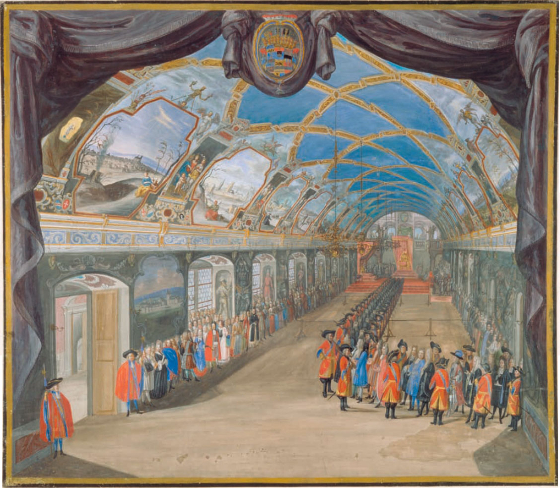 The Riesensaal (Grand Hall) in Dresden Castle at 1693